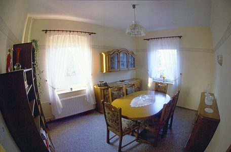 Fisheye 15mm (type: equisolid angle), 35mm-Film, cropped by slide-frame. Complete room (4 walls, ceiling and floor)